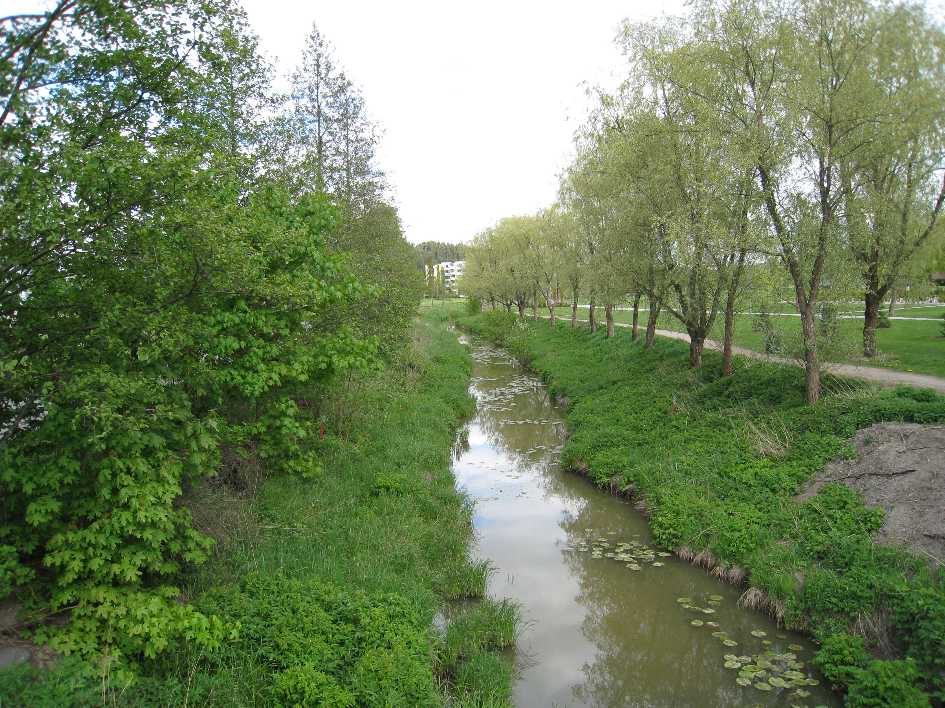 Vähäjoki in Salo